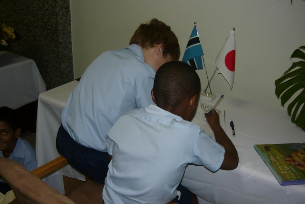 Children visited the Embassy of Japan in Gaborone, to sign a book of condolence for the victims of Tōhoku earthquake and tsunami in Gaborone City, South-East District on March 22, 2011.(c.f. "「がんばれ日本! 世界は日本と共にある」（世界各地でのエピソード集）――アフリカその3", 外務省: 「がんばれ日本！ 世界は日本と共にある」（世界各地でのエピソード集）: アフリカその3, Ministry of Foreign Affairs of Japan.)